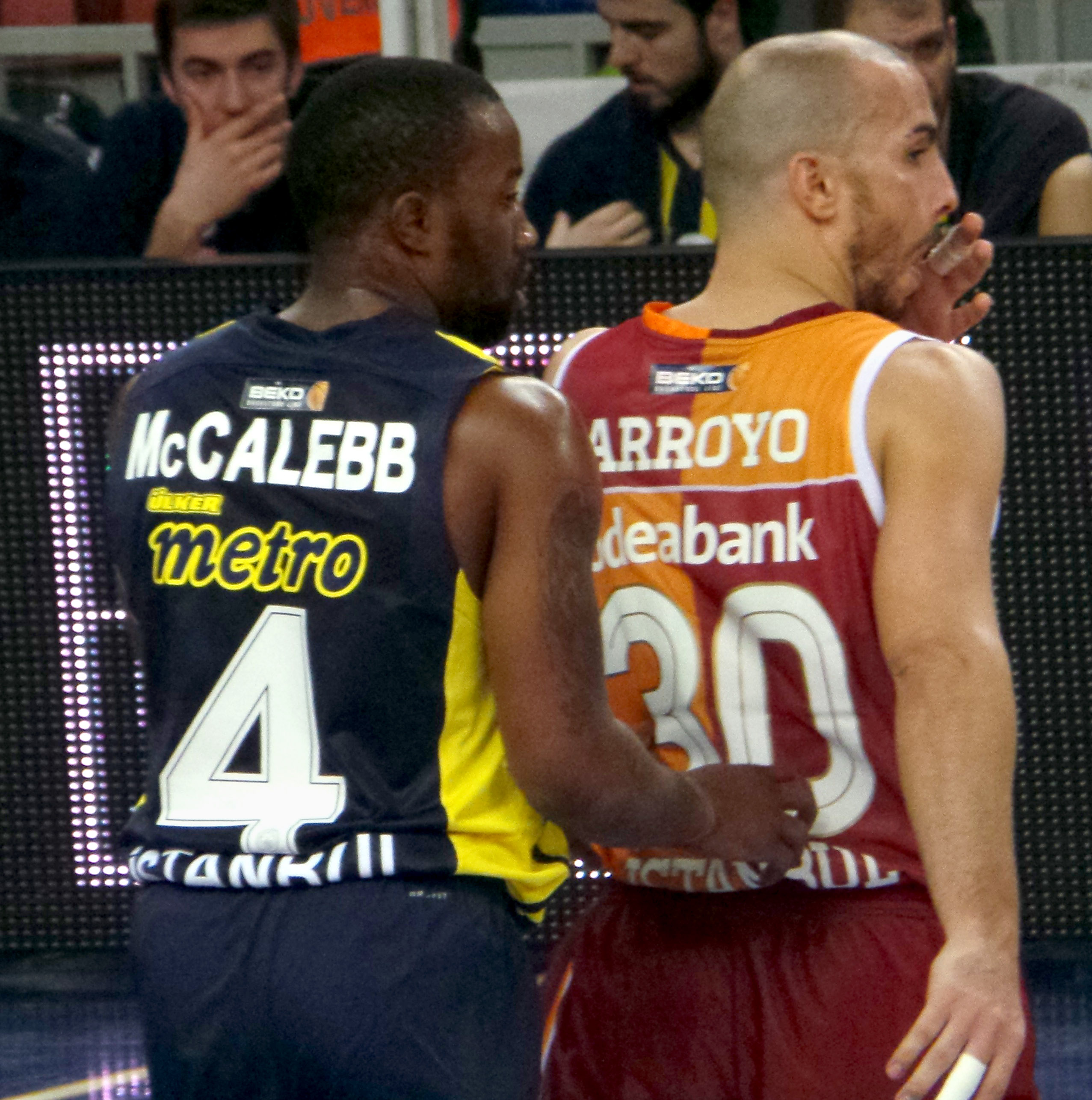 ArroyoMcCalebb